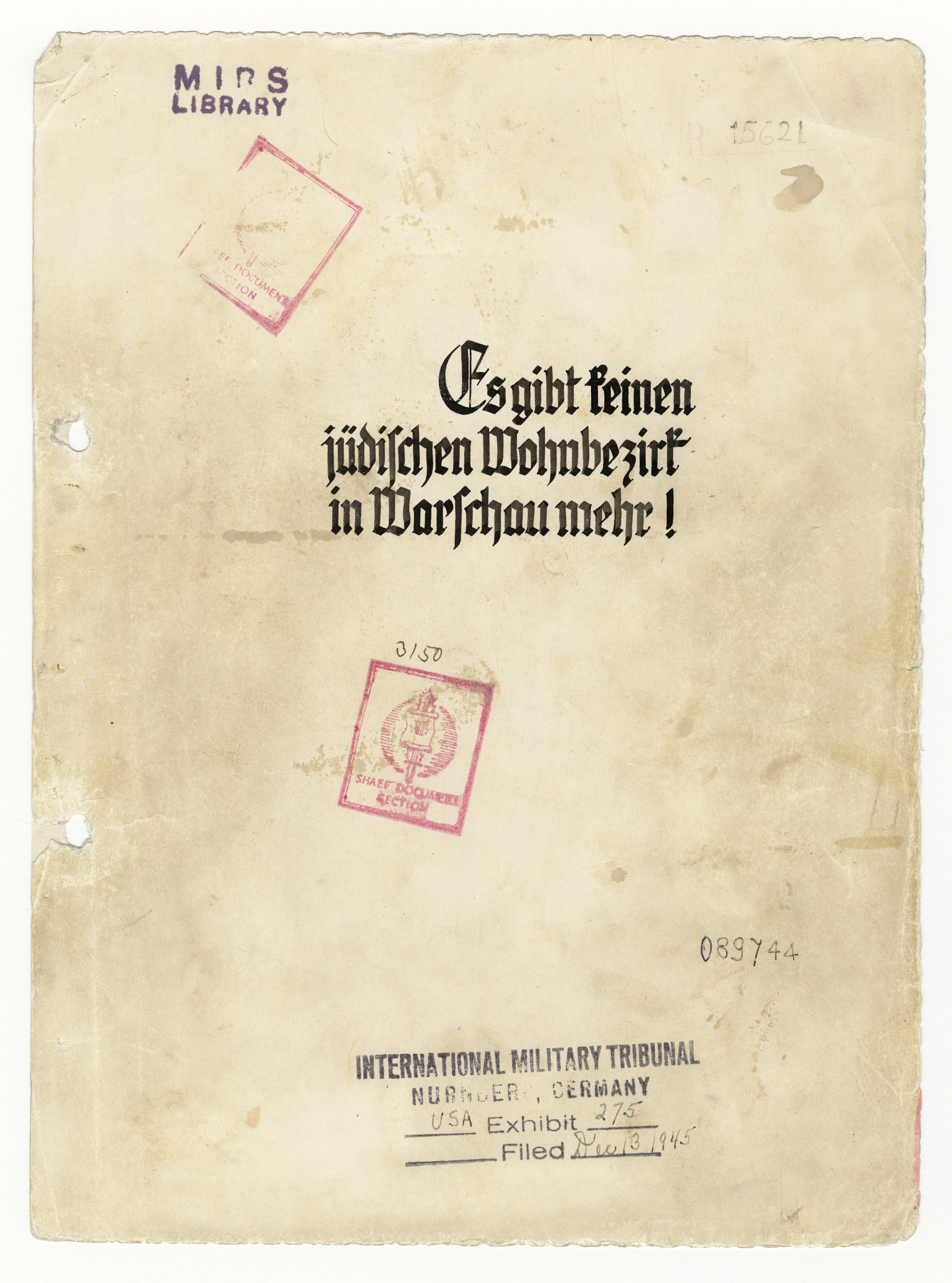 Warsaw Ghetto Uprising- The cover page from a copy of Jürgen Stroop Report to Heinrich Himmler from May 1943. The German title reads: "There is no Jewish Quarter in Warsaw anymore!". Below Nuremberg Trials stamps.